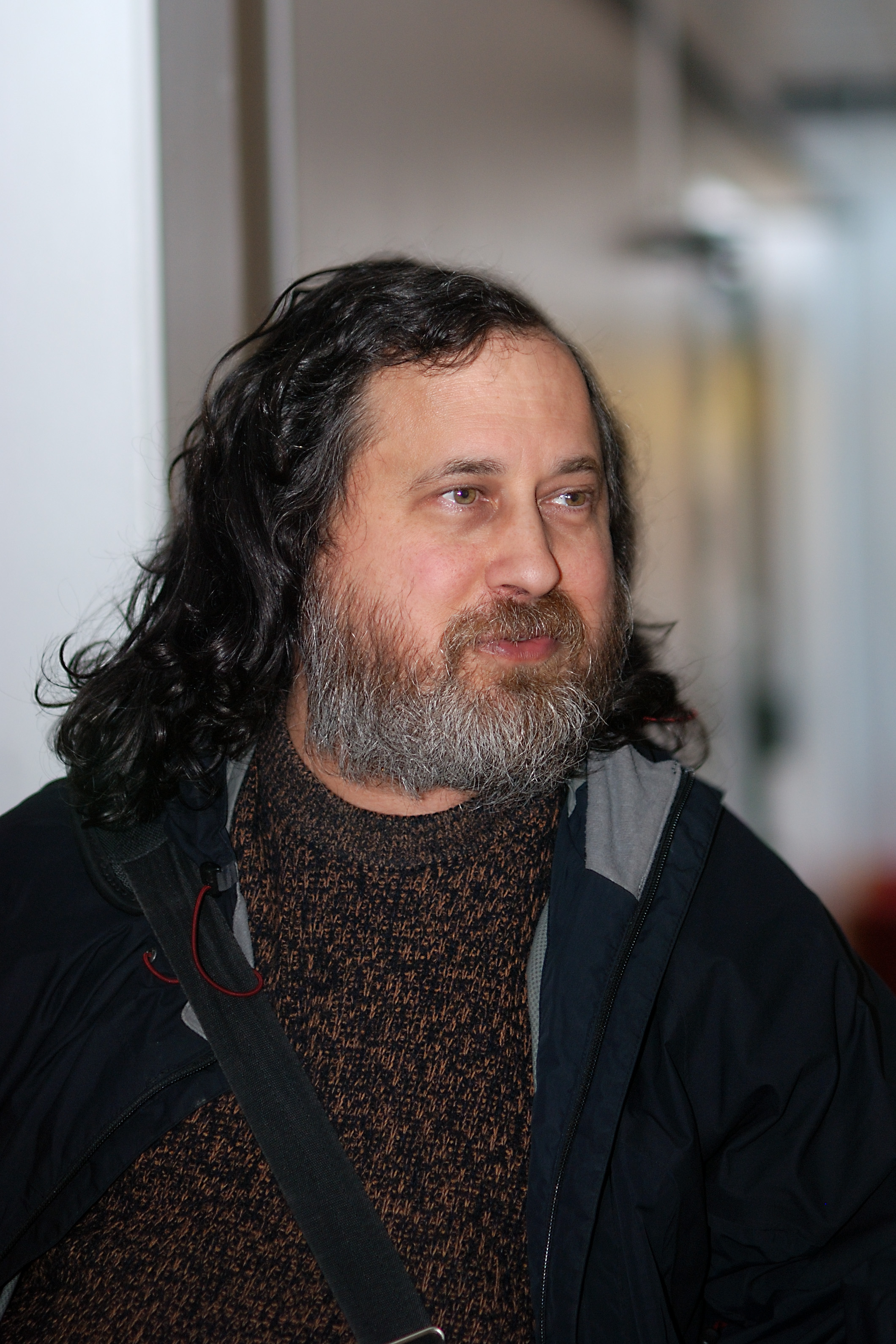 Richard Stallman, taken at the University of Oslo, on February 23, 2009